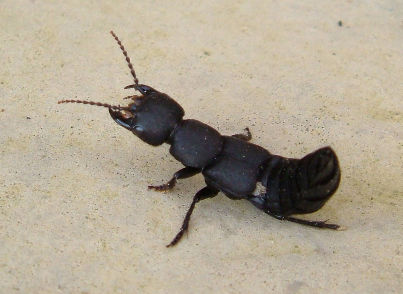 A Devil's Coach Horse.